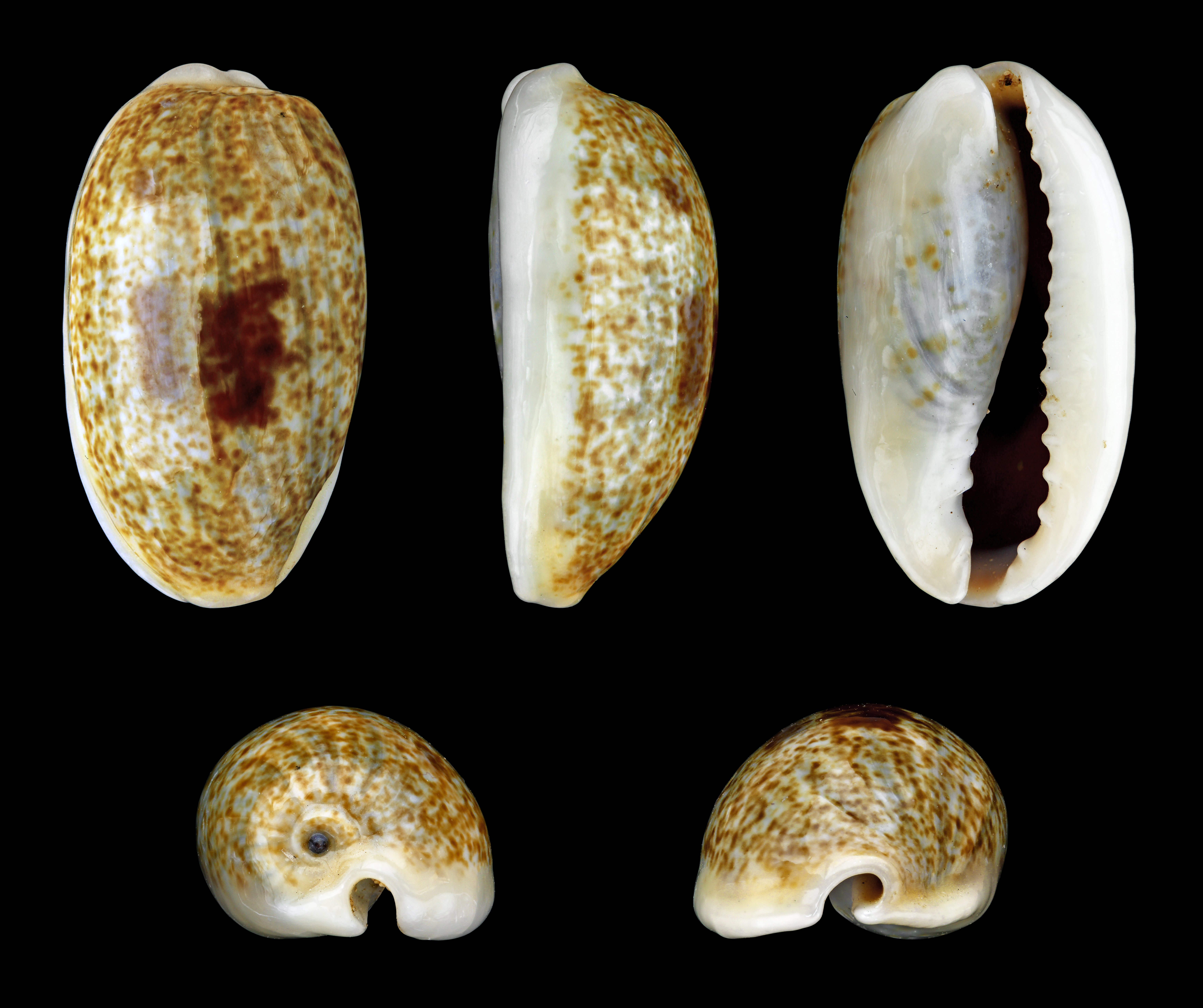 Wandering Cowry; Length 2.3 cm; Originating from Palou Tello, Batu Islands, Indonesia; Shell of own collection, therefore not geocoded. Dorsal, lateral (right side), ventral, back, and front view.